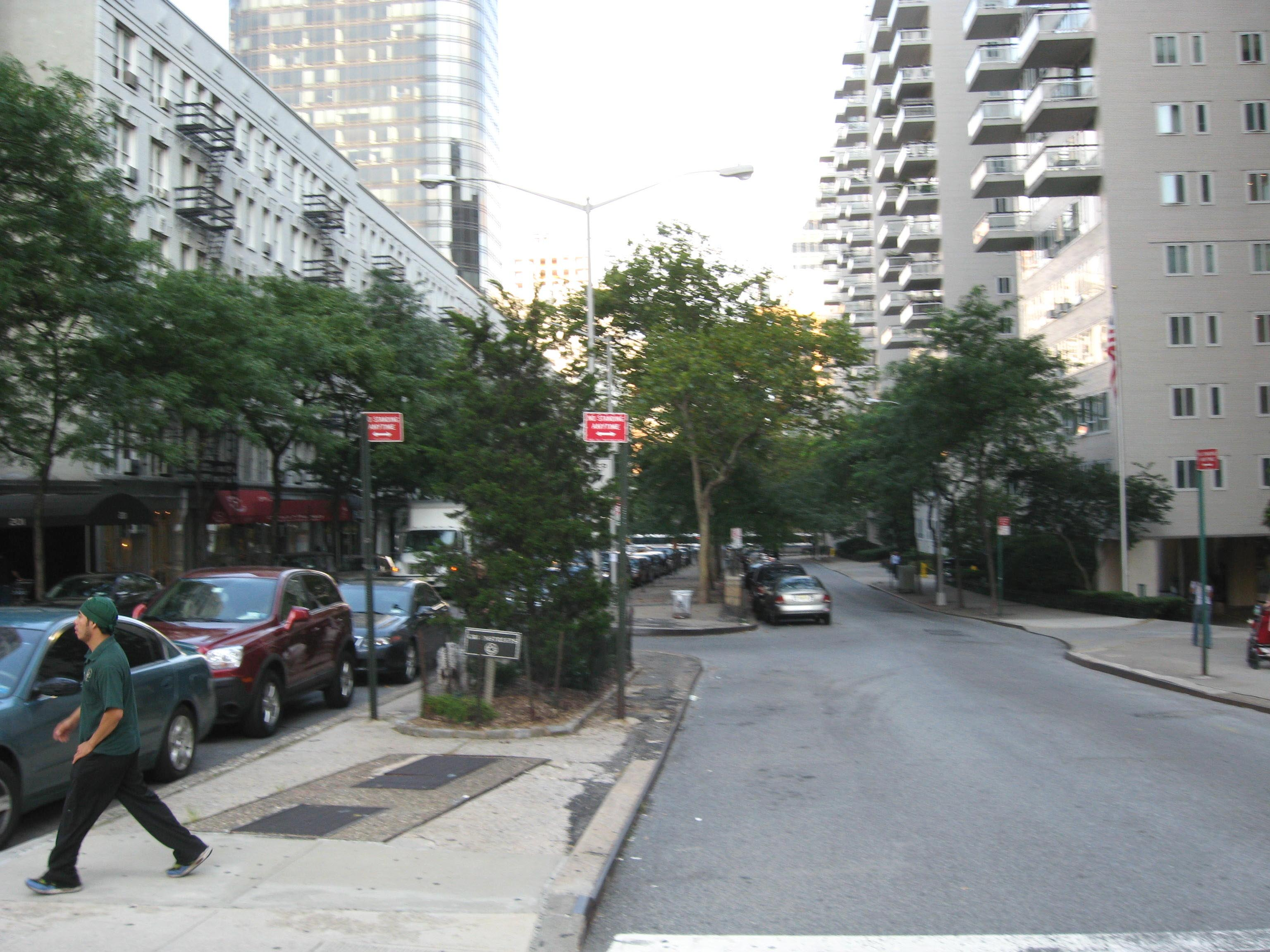 Looking east from Third Avenue along the only two-way block, presumably a remnant of streetcar operations, of East en:66th Street (Manhattan) on a sunny afternoon. 200 East 66th (Manhattan House) is on the right.